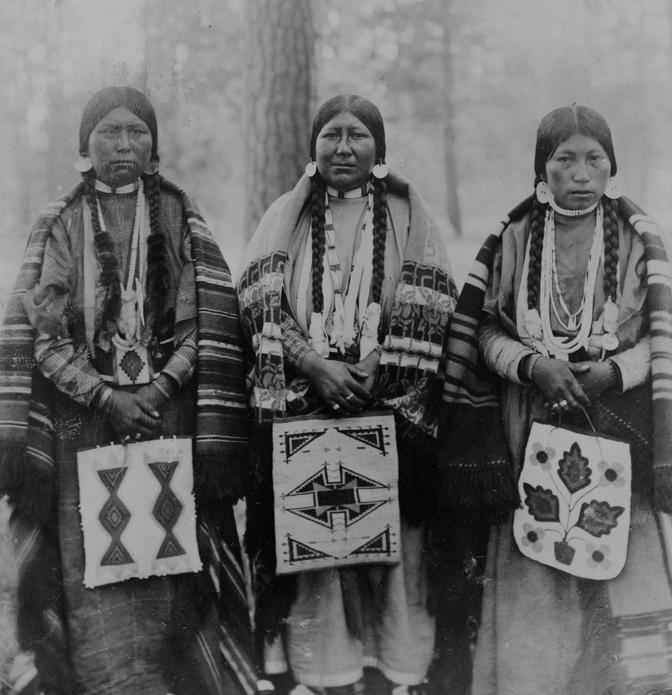 Three Native American women, standing, full-length, facing front, holding beaded bags, Warm Springs Indian Reservation, Wasco County, Oregon.